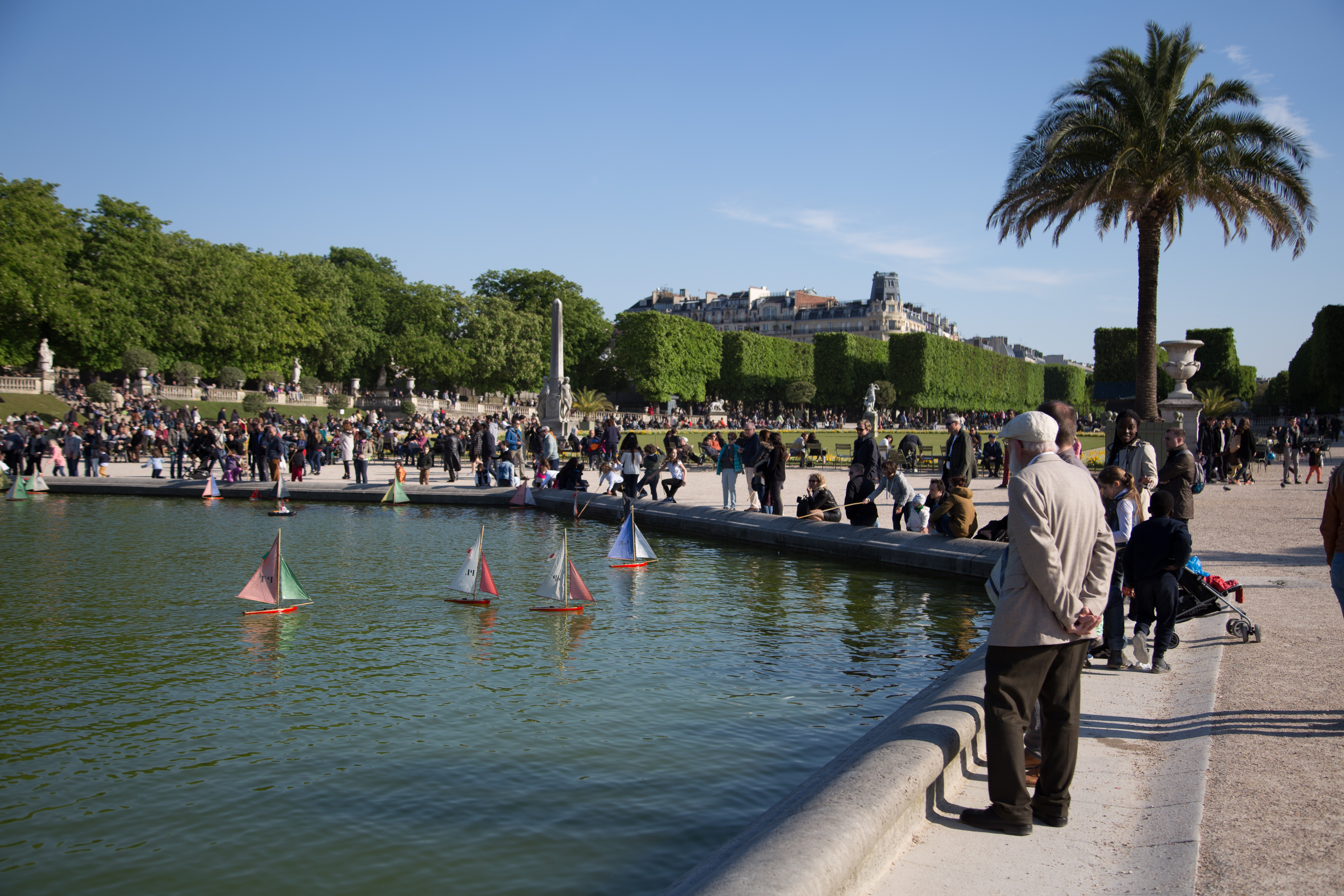 Central water basin in the Jardin du Luxembourg, Paris, France